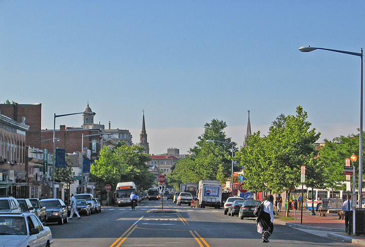 Looking south on Mount Pleasant Street, NW in the Mount Pleasant neighborhood of Washington, D.C..